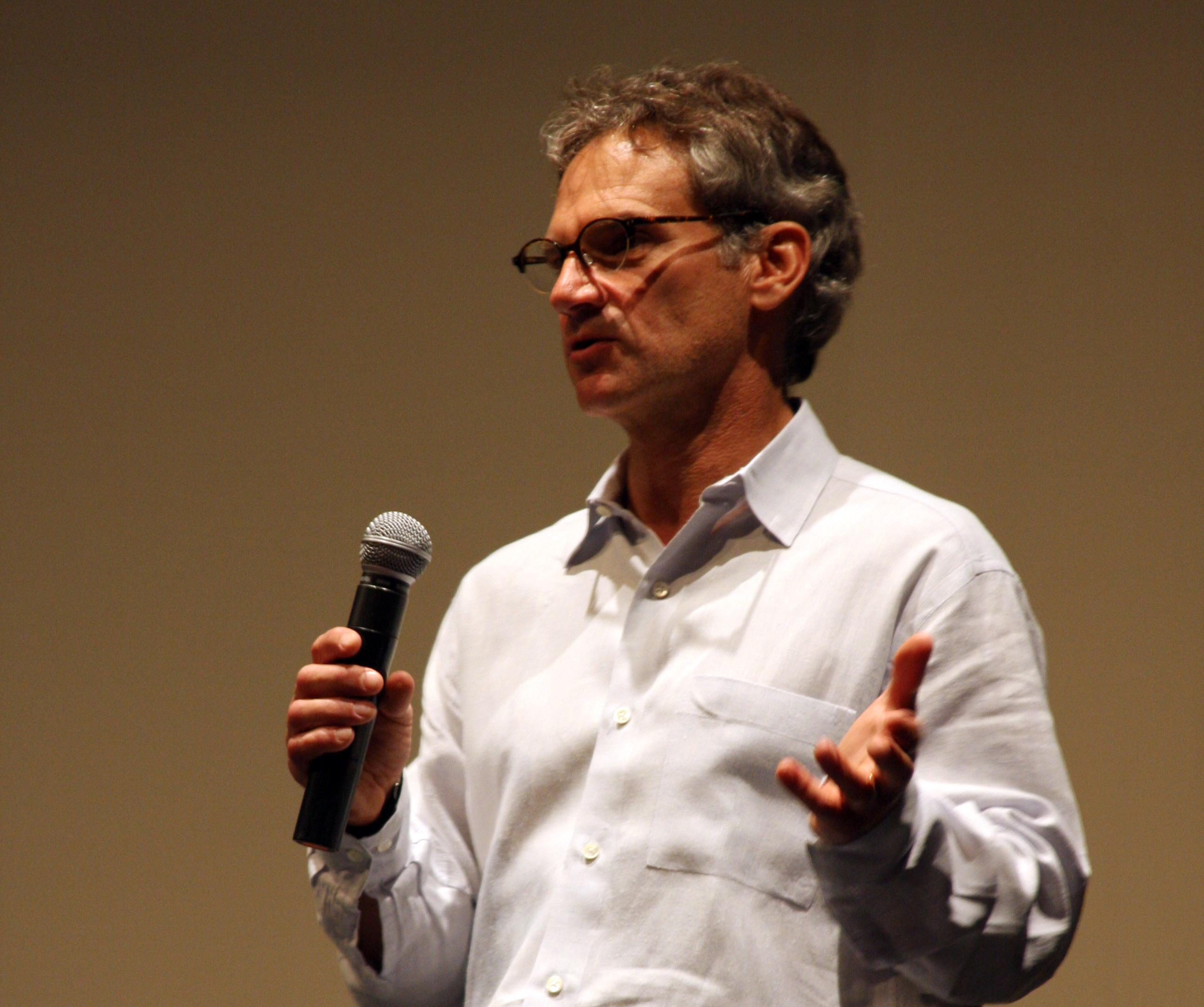 Jon Krakauer spoke about his new novel Where Men Find Glory, the book about Pat Tillman, on Oct 3, 2009 at Dobson High School.